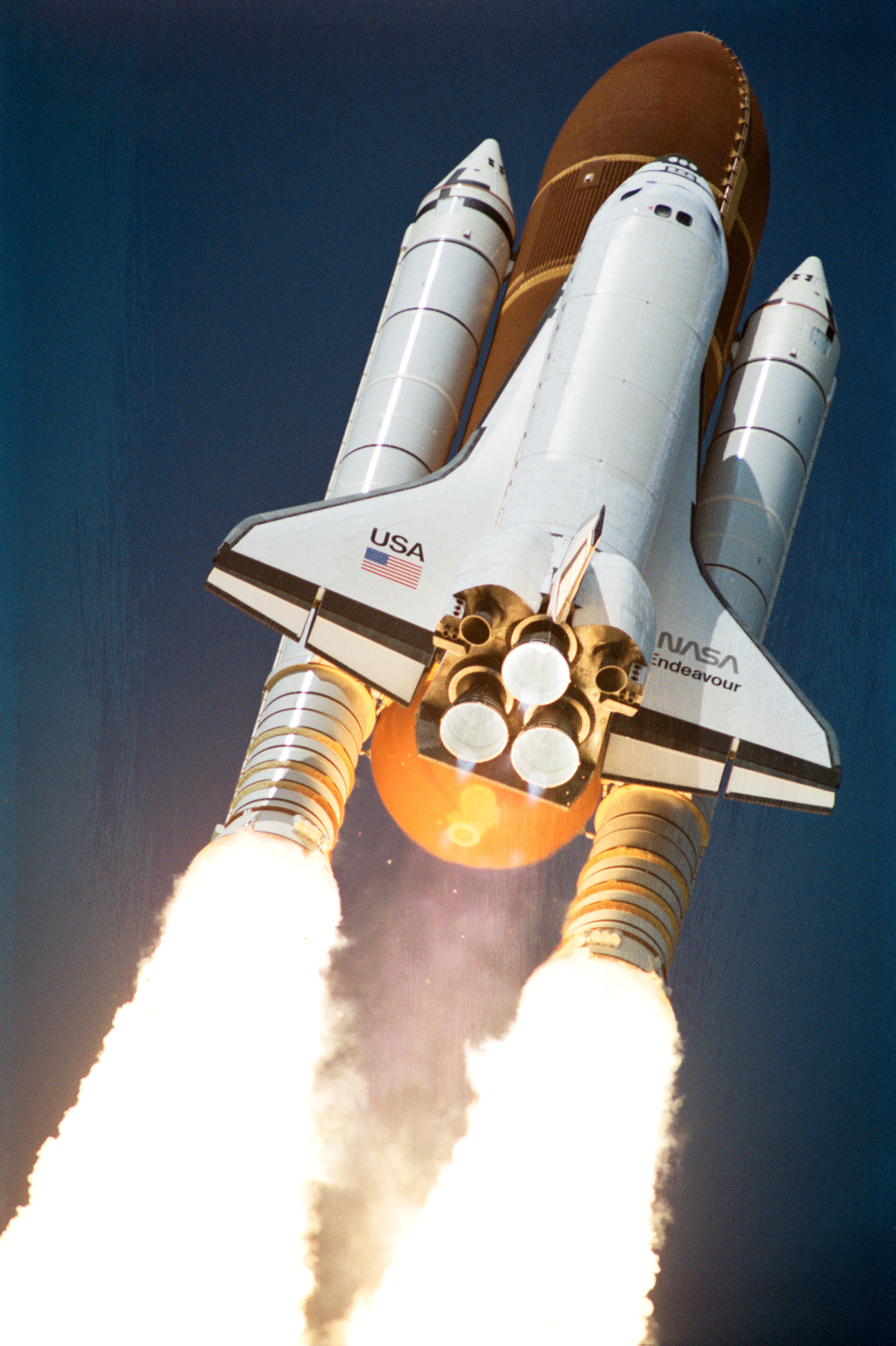 STS-47 Endeavour, Orbiter Vehicle (OV) 105, liftoff from KSC A 35mm camera was used to record this low-angle view of the STS-47 launch. With a crew of six NASA astronauts and a Japanese payload specialist onboard, the Space Shuttle Endeavour was heading for its second trip into space. This mission will be devoted to support of the Spacelab-J mission, a joint effort between Japan and the United States. Launch occurred at 10:23:00:0680 a.m. (EDT), September 12, 1992. Onboard were astronauts Robert L. Gibson, mission commander; Curtis L. Brown Jr., pilot; Mark C. Lee, payload commander; and Jerome (Jay) Apt, Mae C. Jemison and N. Jan Davis, mission specialists; along with payload specialist Mamoru Mohri, representing the National Space Development Agency (NASDA) of Japan.